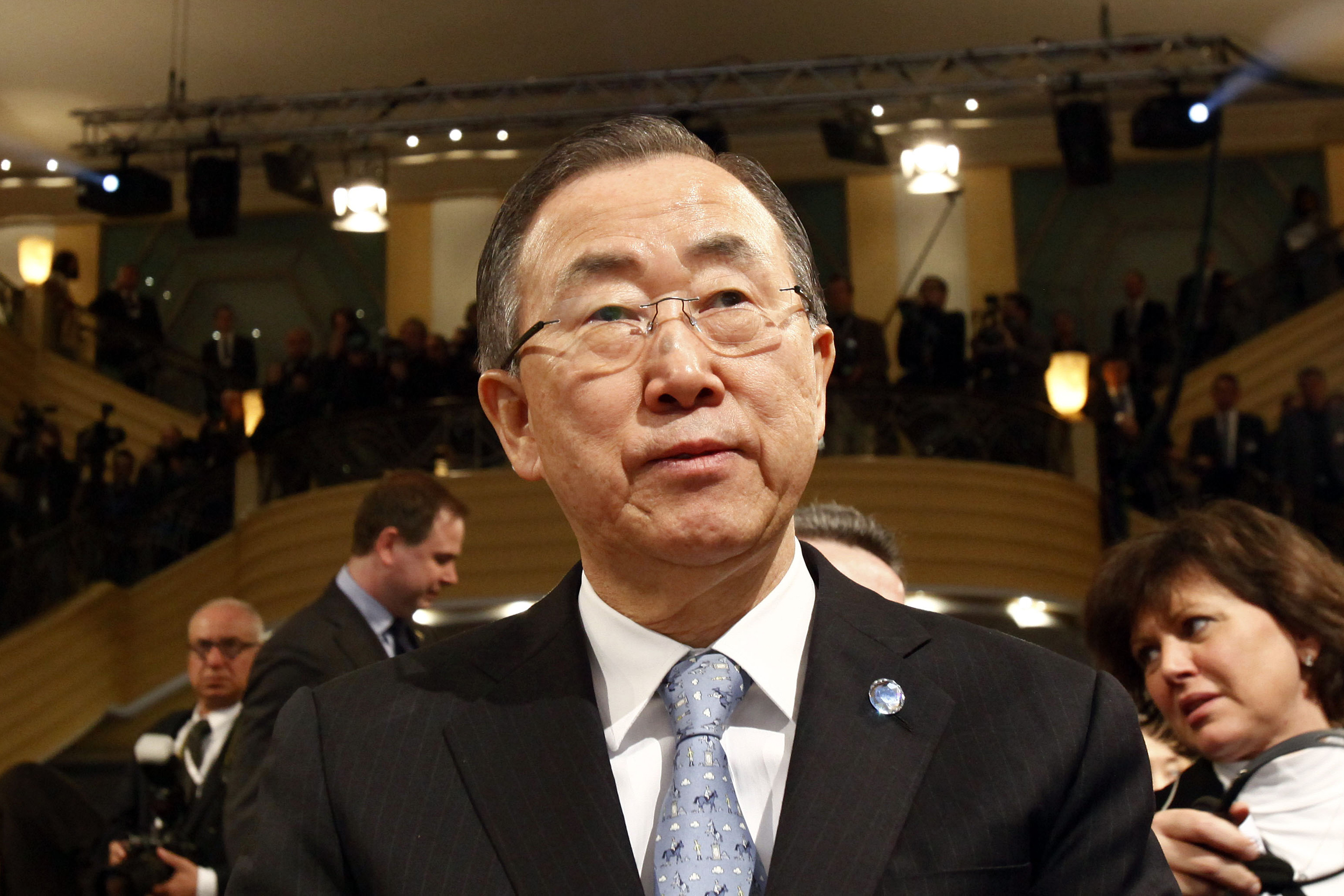 50th Munich Security Conference 2014: Ban Ki-moon: Ban Ki-Moon (Secretary General, United Nations).